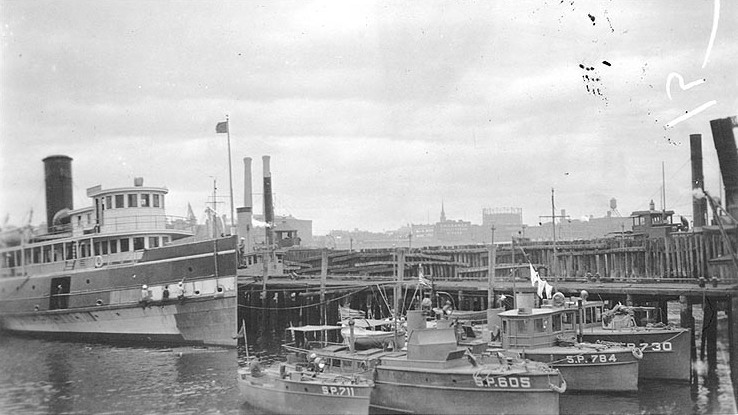 USS Moosehead (ID-2047) (left) in Lockwood's Basin, Boston, Massachusetts, with four US Navy patrol boats. From outboard, the patrol vessels are USS Kiowa (SP-711), USS Skink (SP-605), USS Whistler (SP-784), and USS Lynx II (SP-730).